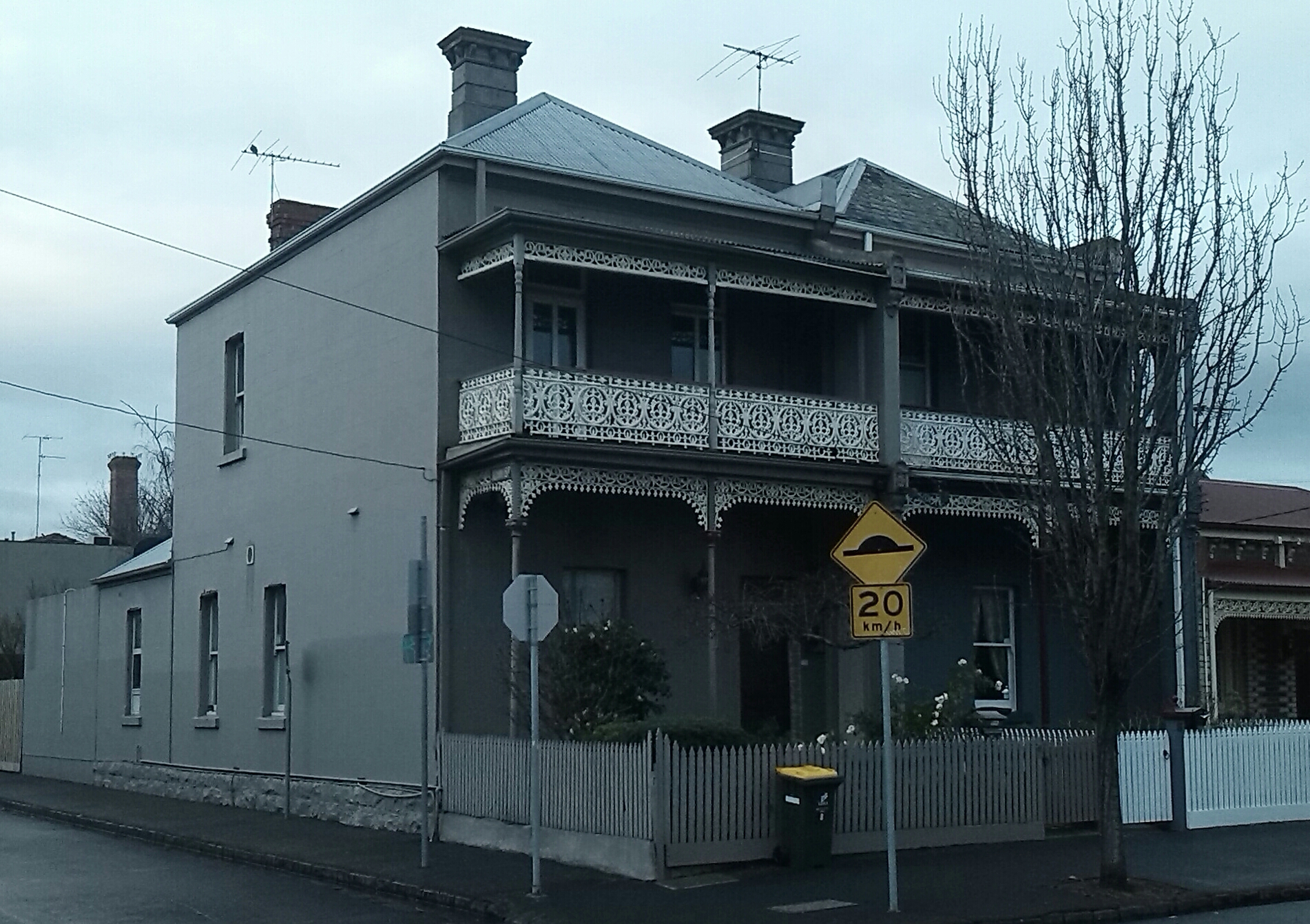 6 Ramsden Street, Clifton Hill, Victoria, Australia, where Julian Knight, the perpetrator of the 1987 Hoddle Street Massacre, lived at the time.